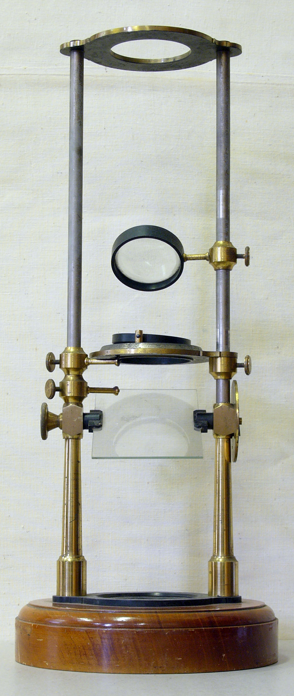 Apparatus to demonstrate polarisation after Nörrenberg (top mirror missing), on display in the Schulhistorische Sammlung (School Historical Museum), Bremerhaven, Germany.